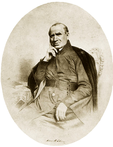 Rev. John McElroy, SJ, founder and president of the "second" Boston College (1859-1861)